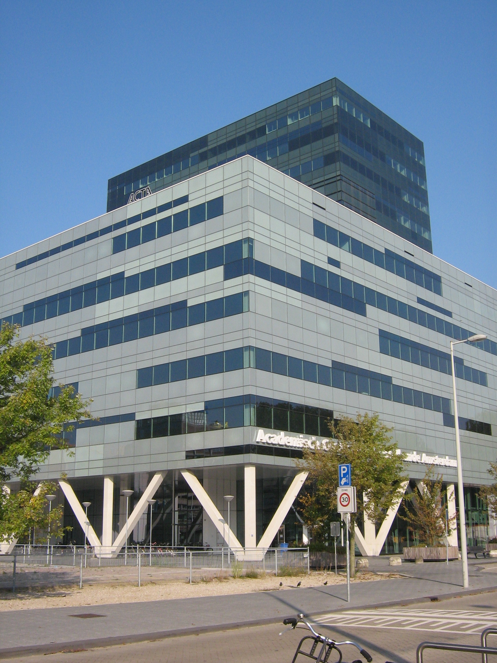 Building of the Amsterdam branch of ACTA, the dental research and education institute affiliated with the city's two universities. The building, seen from the southeast here, is located at 3004 Gustav Mahlerlaan.